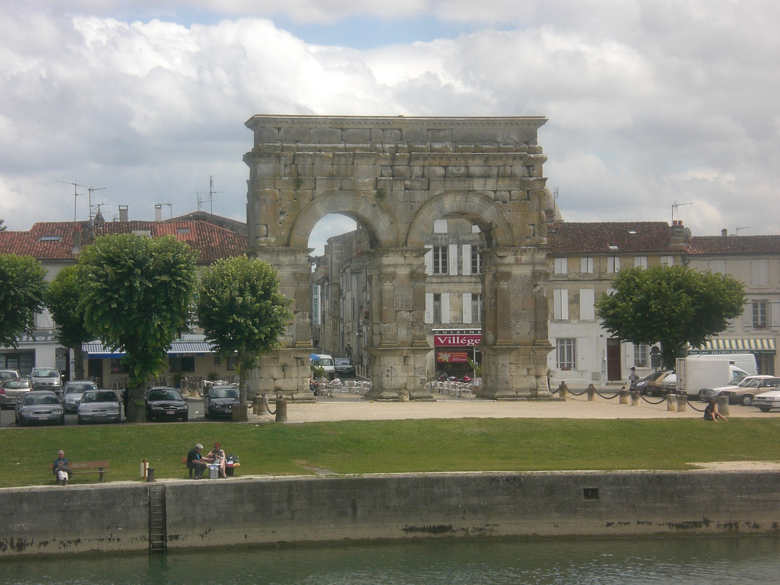 the roman triumphal arch in Saintes